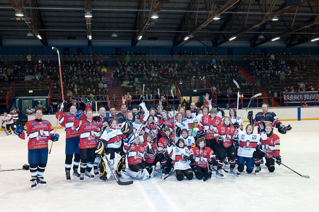 Teamfoto